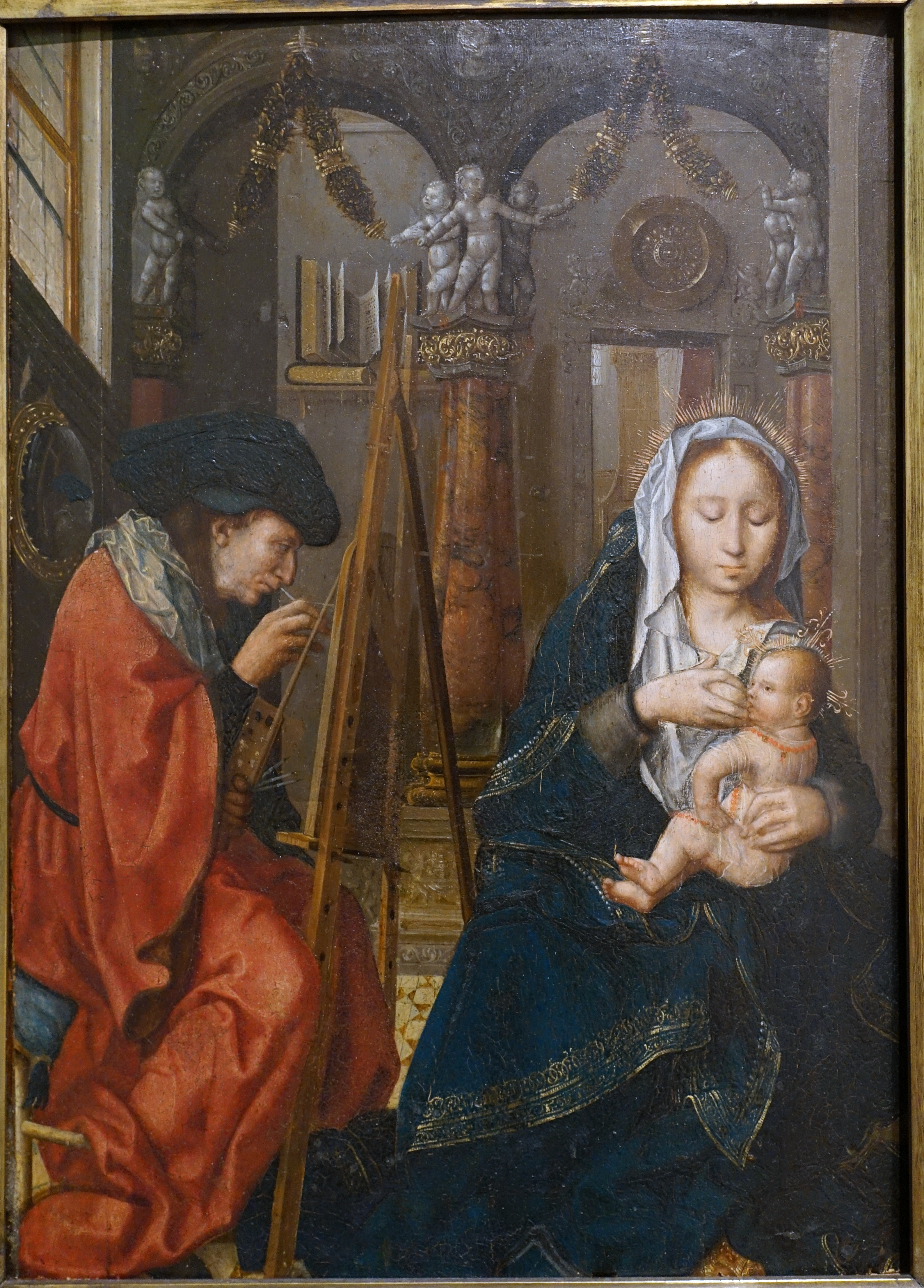 Exhibit in the Fogg Art Museum, Harvard University, Cambridge, Massachusetts, USA. This artwork is in the public domain because the artist died more than 70 years ago.